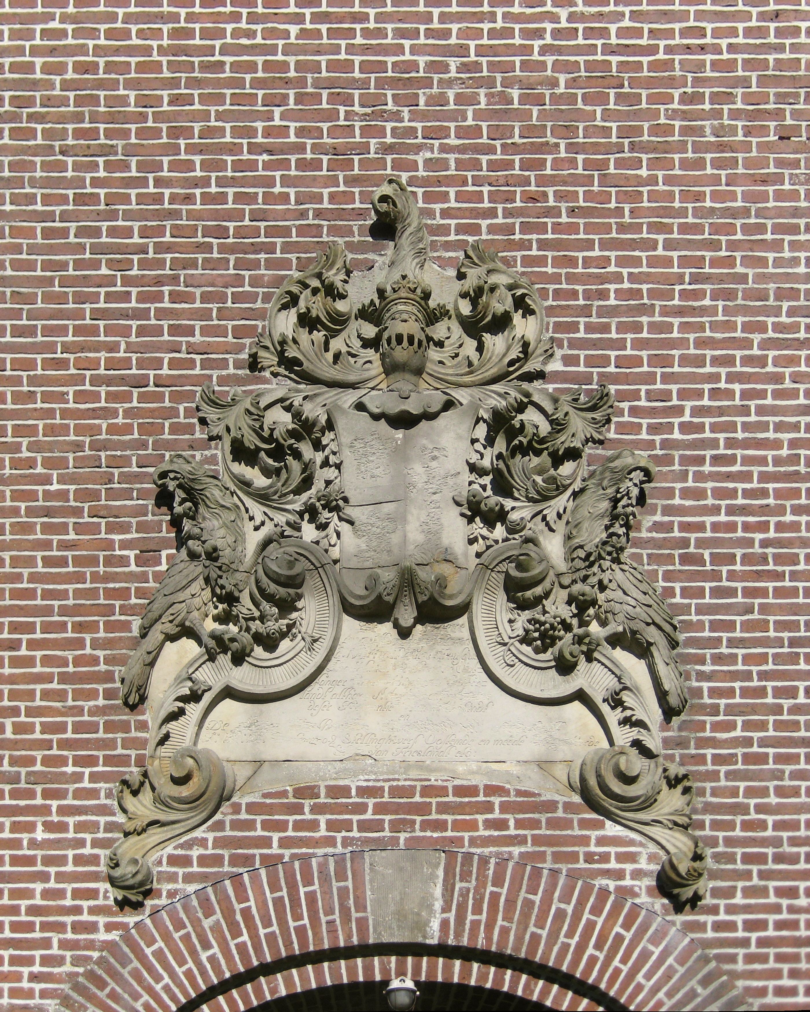 Gable stone above the entrance of the reformed church of Donkerbroek, a village in Ooststellingwerf, a municipality in the Dutch province of Fryslân. The escutcheon originally showed the coat of arms of the Frisian family Lycklama à Nijeholt. This coat of arms and some parts of the gable stone text were removed in 1796 during the Batavian Revolution.